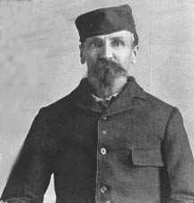 Alferd Packer, popularly known as one of only two Americans ever imprisoned for cannibalism.